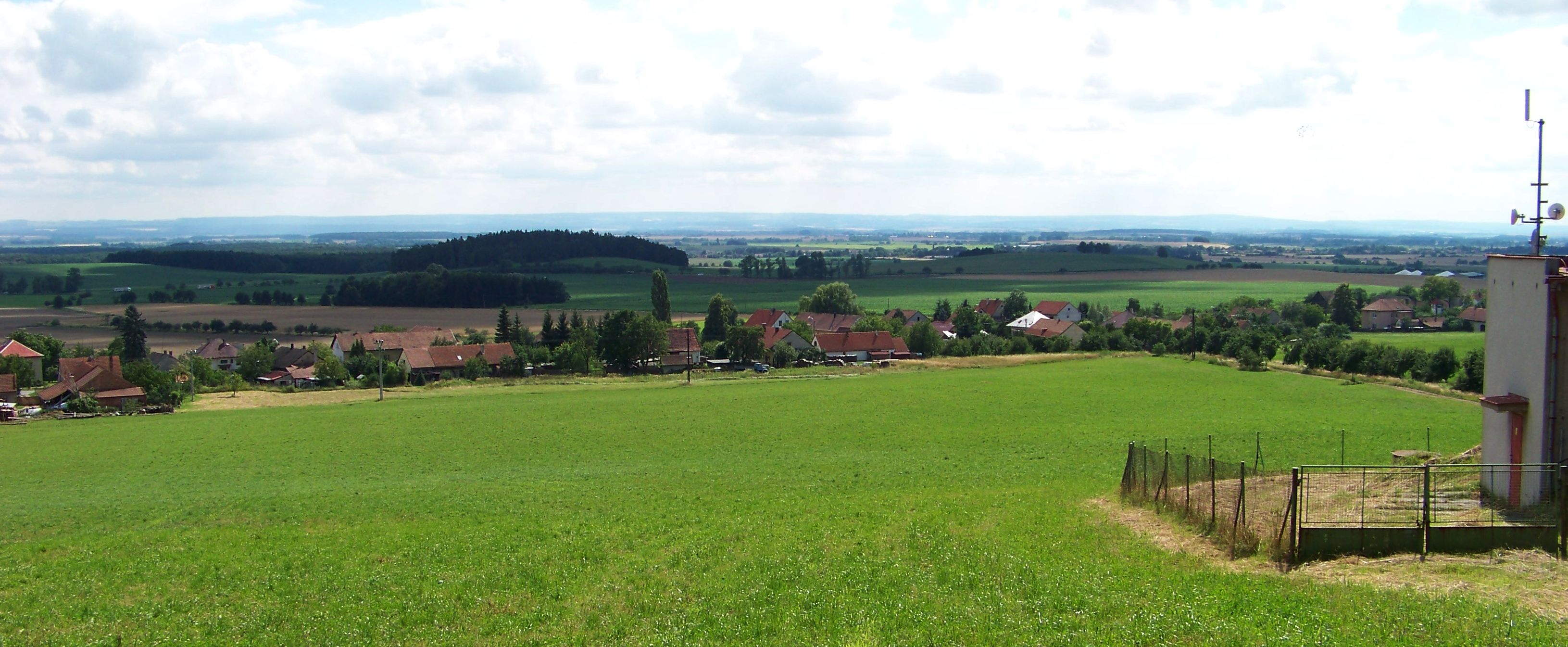 Ostřetín, Pardubice District, Pardubice Region, the Czech Republic. A view from Vinice hill.